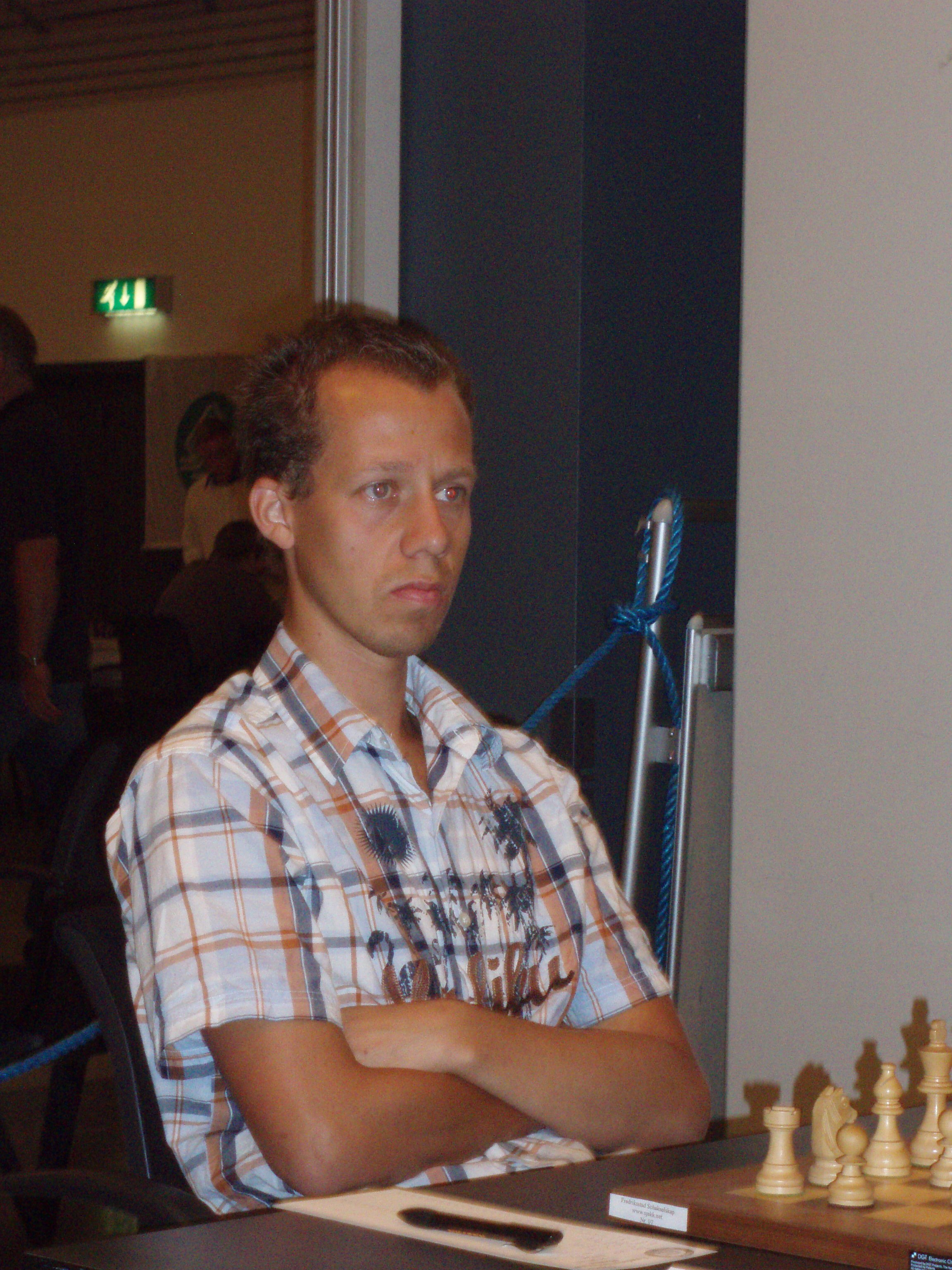 Kjetil A. Lie, Chess Grandmaster, at the Norwegian Chess Championship at Hamar Kjetil A. Lie, stormeister i sjakk, NM på Hamar 2008